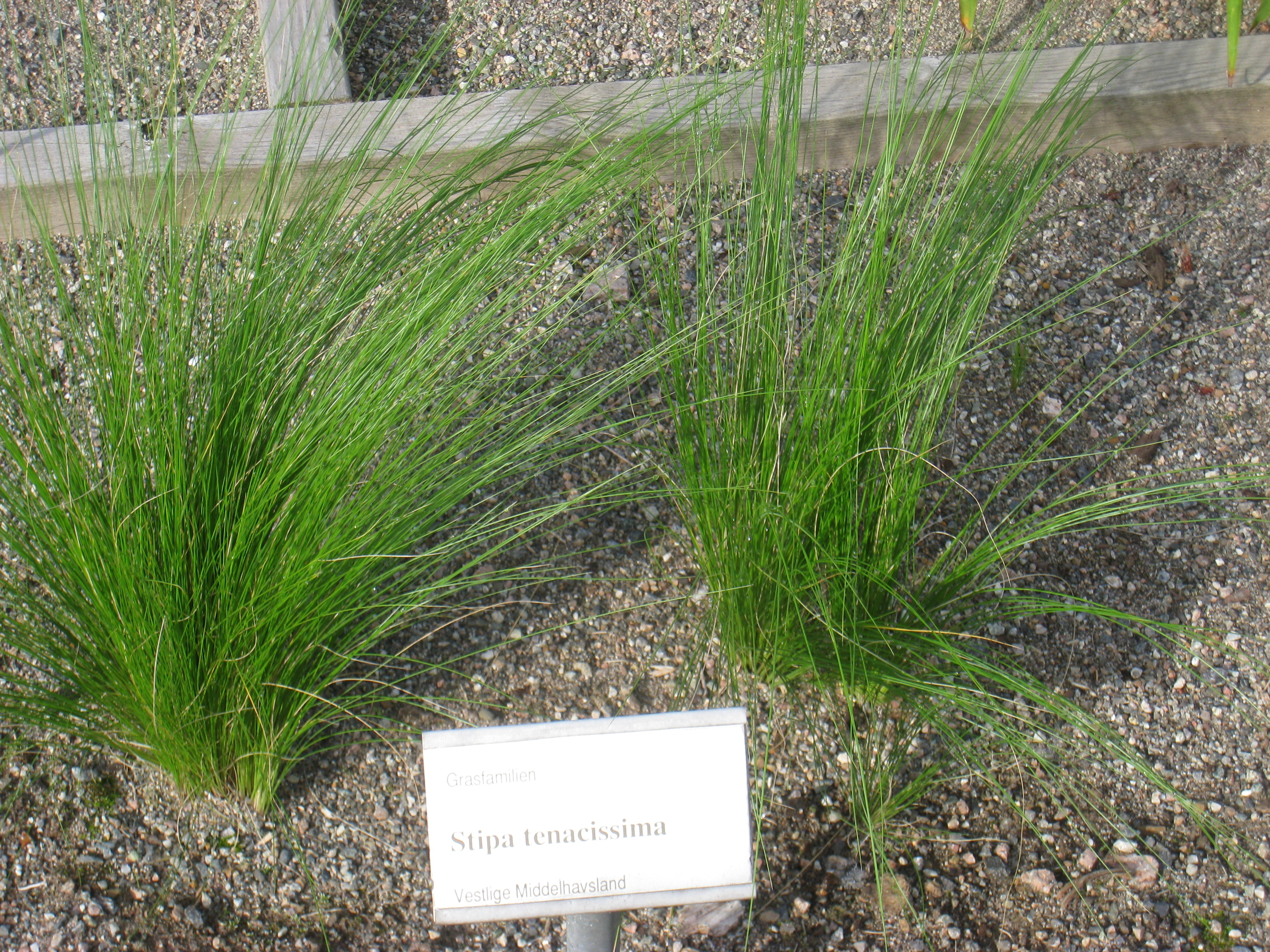 Stipa tenacissima - Oslo botanical garden, Oslo, Norway.